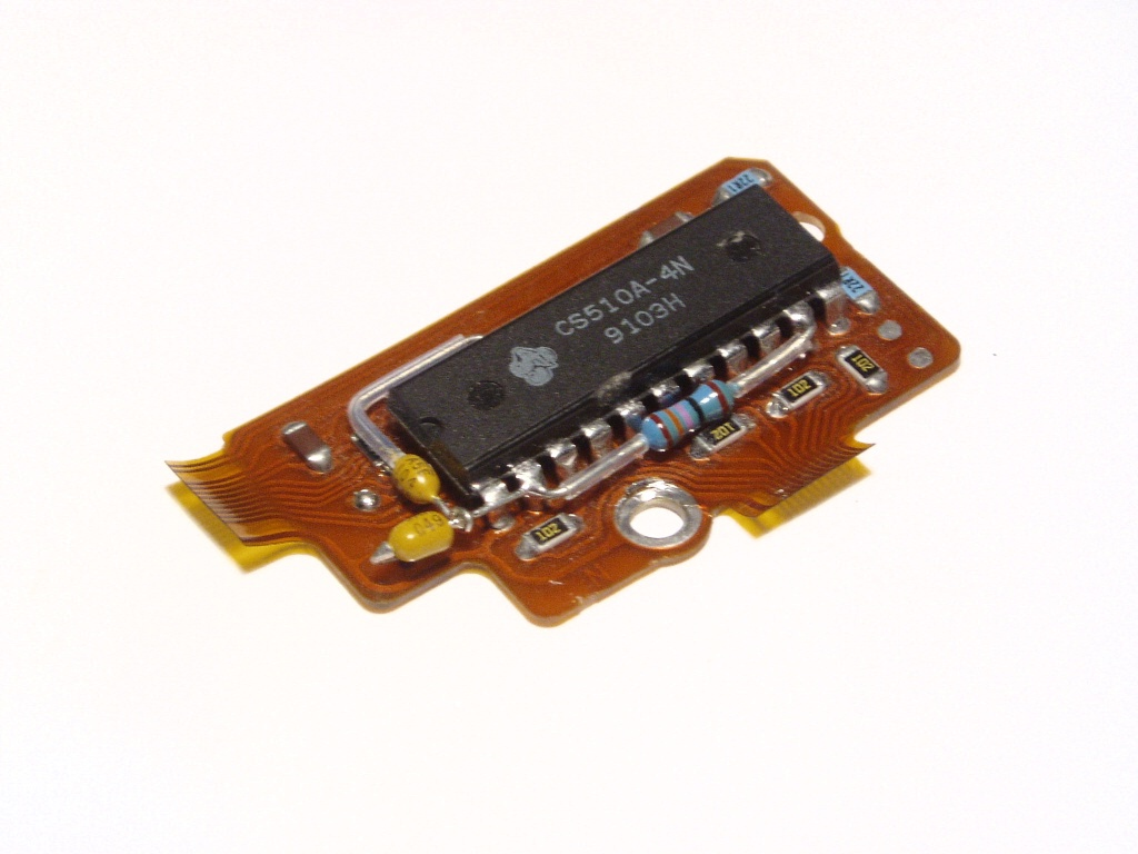 A small flex circuit, with both SMT and through-hole components. Note the insulating sleeves on the through-hole component leads to prevent unwanted contact with legs of the integrated circuit